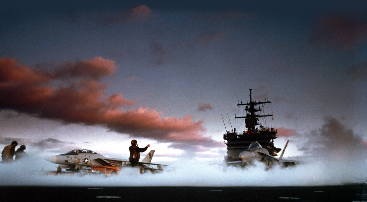 An F-14 tomcat fighter aircraft (left) and an F/A-18 Hornet fighter aircraft are readied for catapult launch from the nuclear-powered aircraft carrier USS ENTERPRISE (CVN-65). Based on Image:F-14_and_F-18_prepare_for_launch.jpg. Cropped 780 pixels off the bottom, sharpened the focus on the planes, enhanced the contrast of the sky color, and reduced the resolution by half.